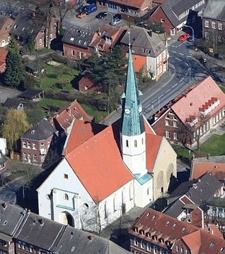 church of the place Albersloh